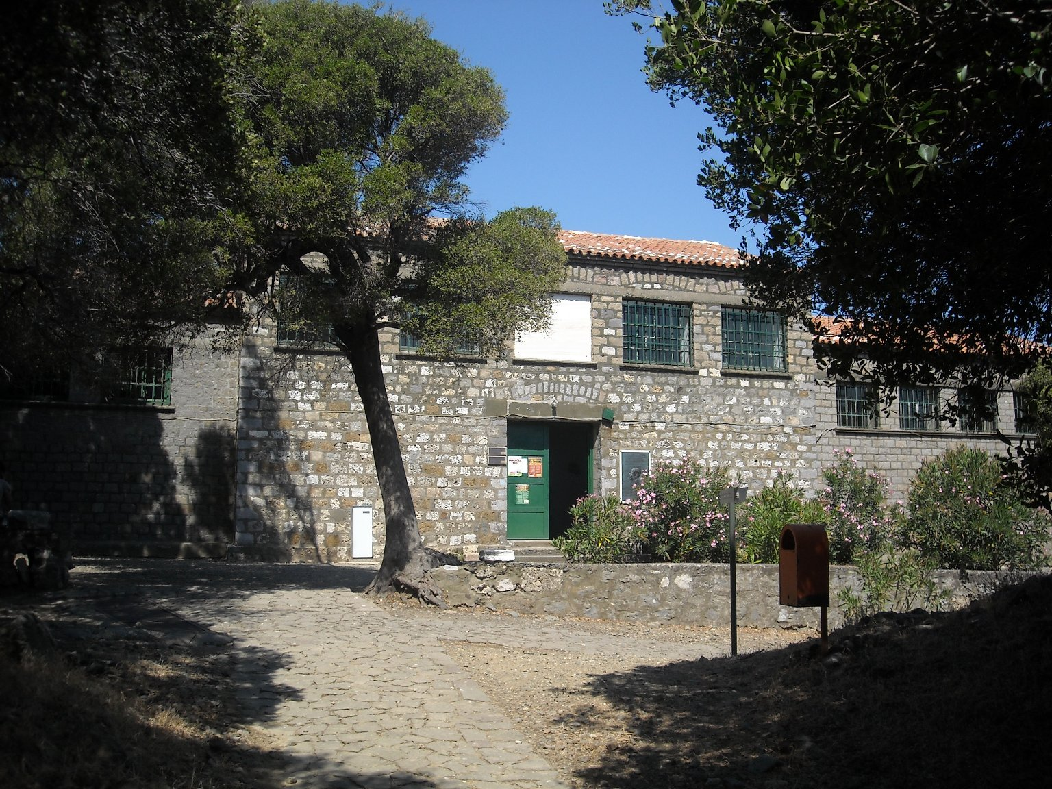 Archaeological museum of Samothrace, 2009